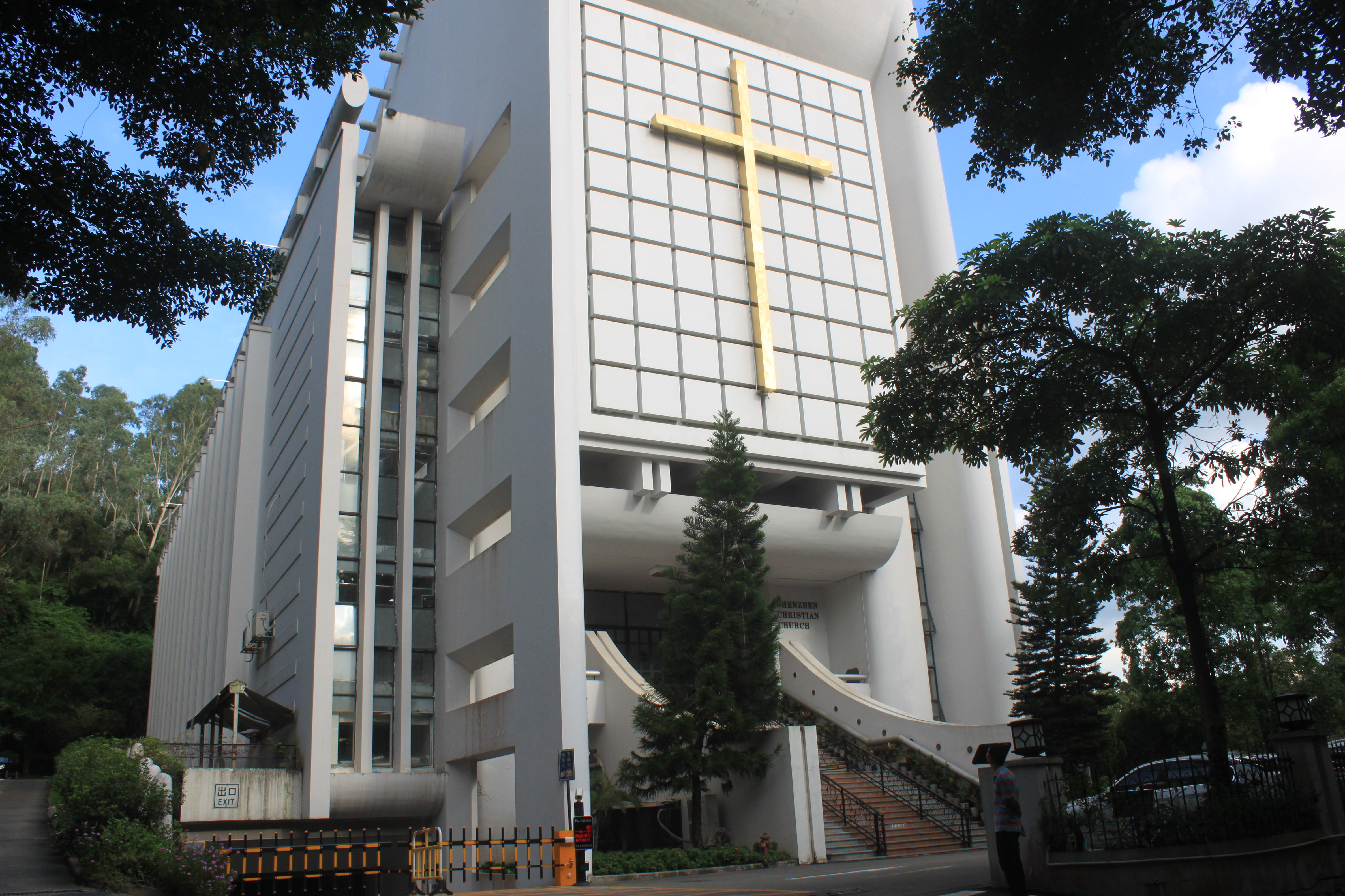 The Shenzhen Christ Church is a Protestant church located in Meilin Road, Futian District, Shenzhen, Guangdong, China. It looks like the Noah's Ark.